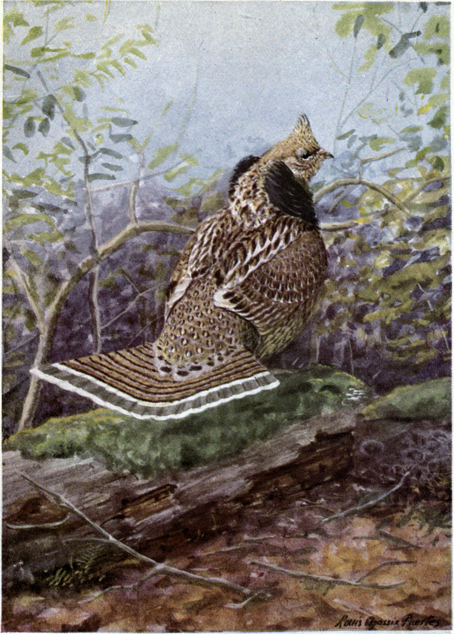 Illustration by Louis Agassiz Fuertes of a Ruffed Grouse (Bonasa umbellus), from The Burgess Bird Book for Children